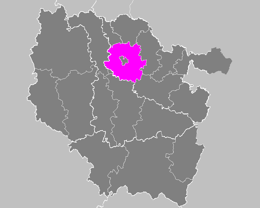 Maps of arrondissements and cantons of France: Arrondissement de Metz-Campagne.PNG